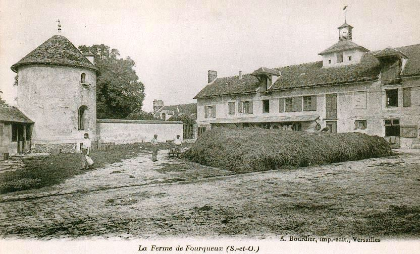 La Ferme de Fourqueux around year 1900. The buildings are now the club house of Golf de Fourqueux.